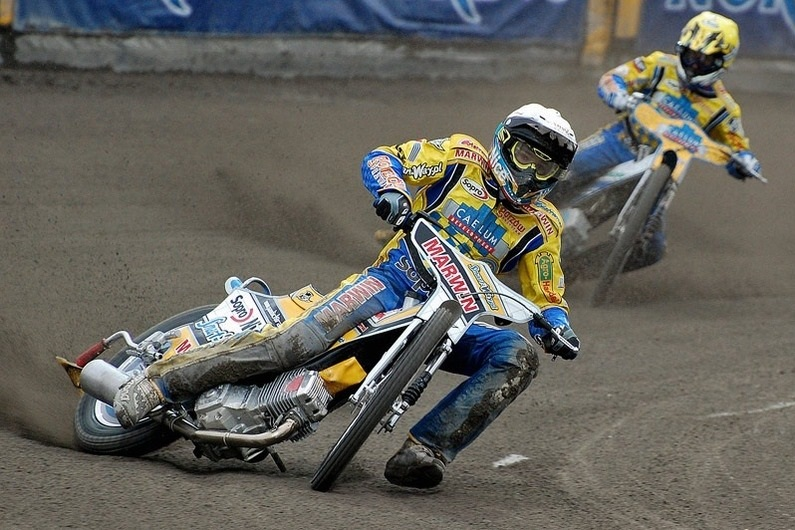 Przemyslaw Pawlicki representive "Stal" in season 2010.